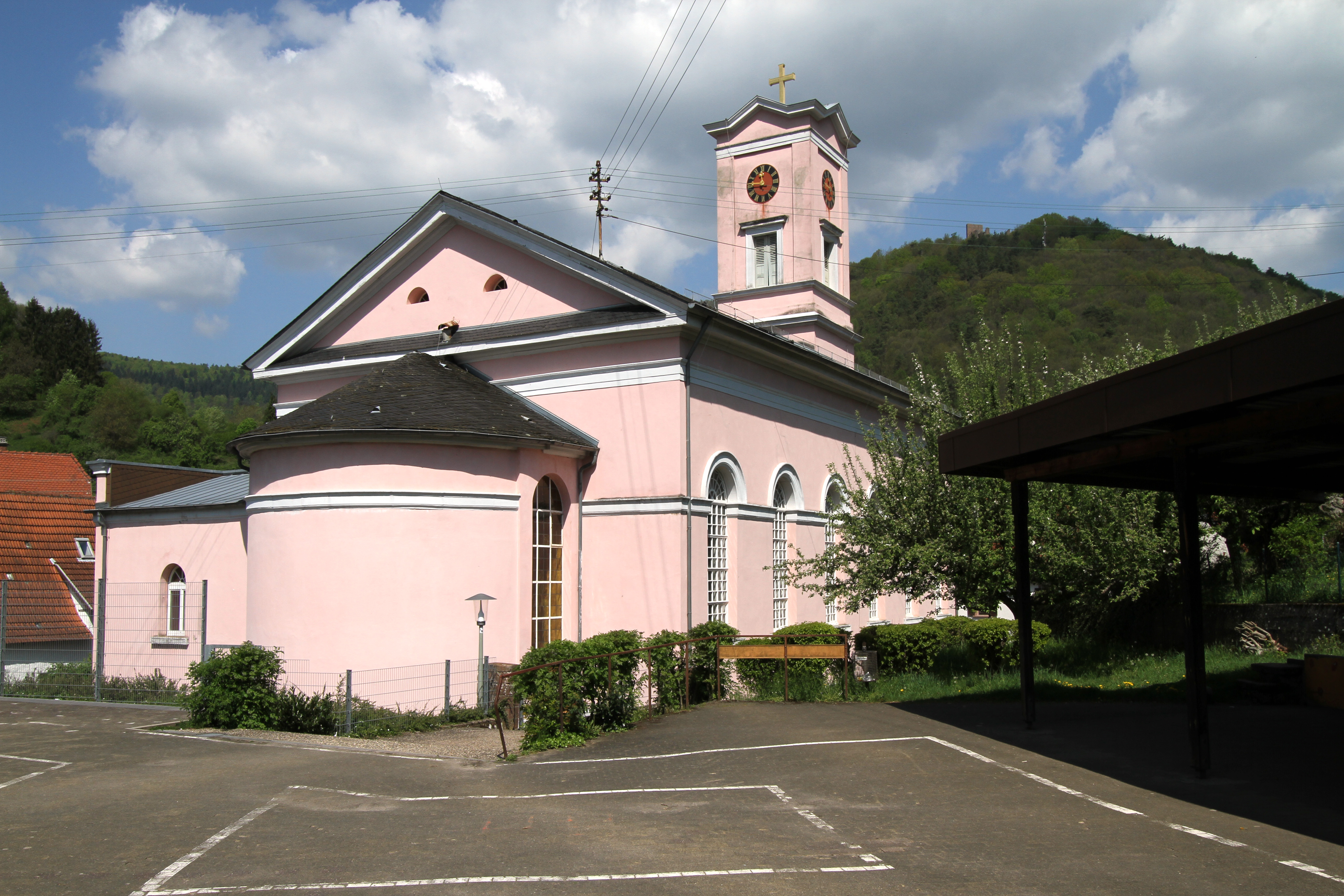 Church of Saint Lawrence in Ramberg.